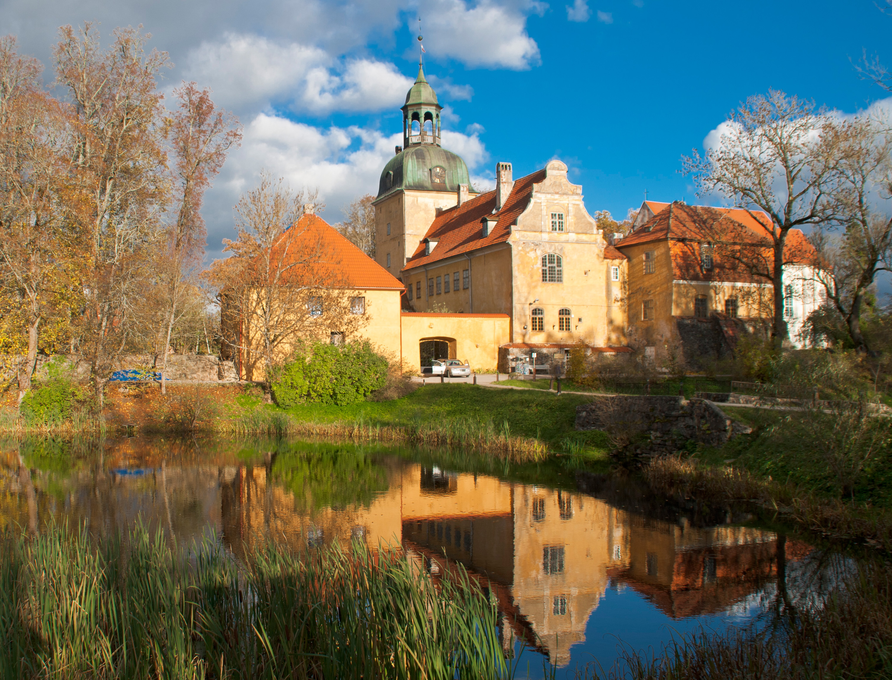 Lielstraupe castle